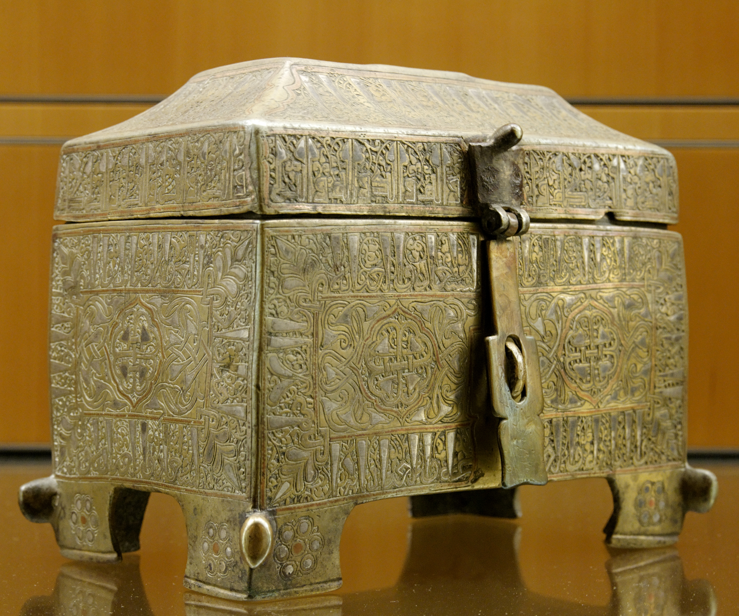 Casket with epigraphic decoration. Bronze damaskeened with silver, late 12th century–early 13th century. From Khorasan, Iran.